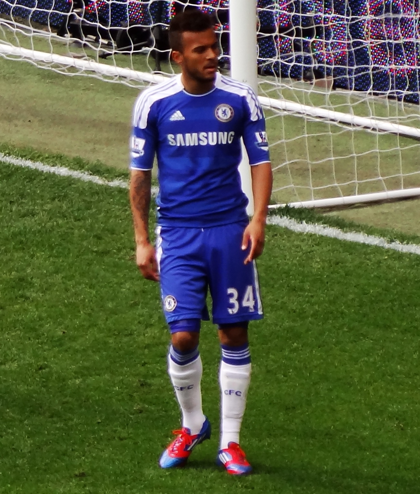 Ryan Bertrand and.Raul Meireles getting marshaled in defence by Petr Cech.